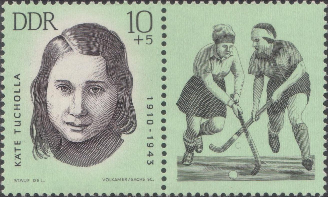 stamp, DDR 1963, Michel 984